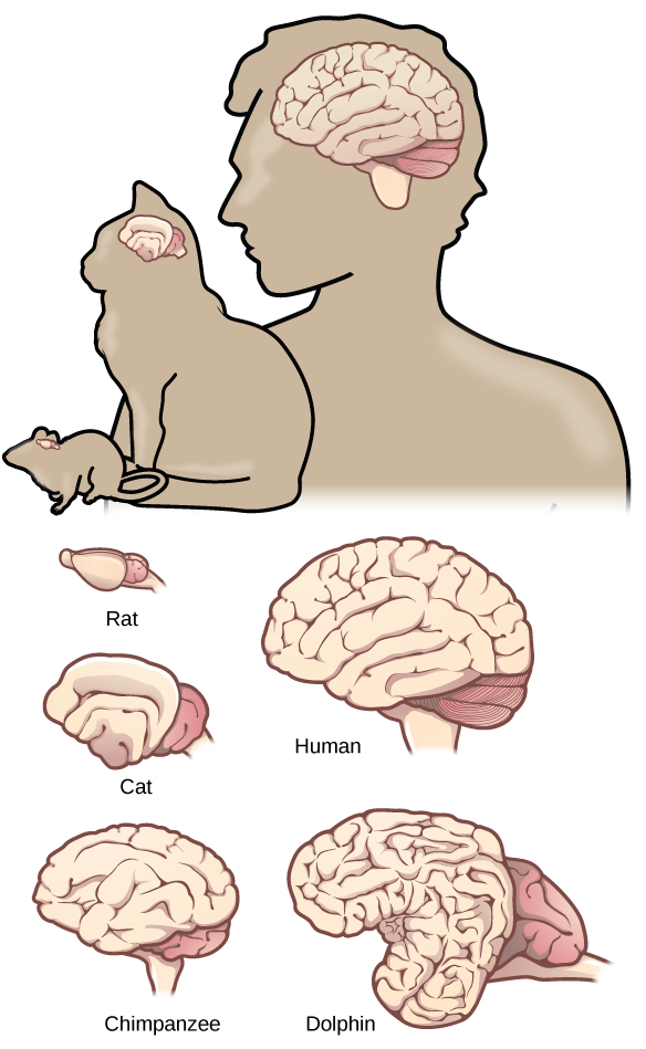 Name: Biology ID: Language: English Summary: Biology is designed for multi-semester biology courses for science majors. It is grounded on an evolutionary basis and includes exciting features that highlight careers in the biological sciences and everyday applications of the concepts at hand. To meet the needs of today’s instructors and students, some content has been strategically condensed while maintaining the overall scope and coverage of traditional texts for this course. Instructors can customize the book, adapting it to the approach that works best in their classroom. Biology also includes an innovative art program that incorporates critical thinking and clicker questions to help students understand—and apply—key concepts. Subjects: Science and Technology Keywords: cells,DNA,gene,expressio,nphylogeny,conservation,biodiversity,biology,chemistry,evolution,proteins,bacteria,fungi,cell,membranes,inheritance,physiology,ecology,genetics,biotechnology,biosphere,photosynthesis,biological,molecules,cell structure,metabolismc,ellular respiration,genes,cell communication,cell reproduction,meiosis,sexual reproduction,genomics,study of life,cell function,animal diversity,animal reproduction,plant nutrition,soilseedless plantsplant physiologyplant reproductionanimal bodycirculatory systemdigestive systemendocrine systemnervous systemrespiratory systemorigin of speciesecosystemsarchaeasensory systemosmotic regulationimmune systemvertebratesviruspopulation ecologymusculoskeletal systembehavioral biologyanimal biologyanimal physiologybiology for majorscollege biologyeukaryotesinvertebratesmacromoleculesplant biologypopulation evolutionprokaryotesprotistsseed plants Print Style: CCAP Biology License: Creative Commons Attribution License (by 4.0) Authors: OpenStax Copyright Holders: Rice University Publishers: OpenStax OpenStax Biology Latest Version: 10.53 First Publication Date: Aug 22, 2012 Latest Revision: May 27, 2016 Last Edited By: OpenStax Biology